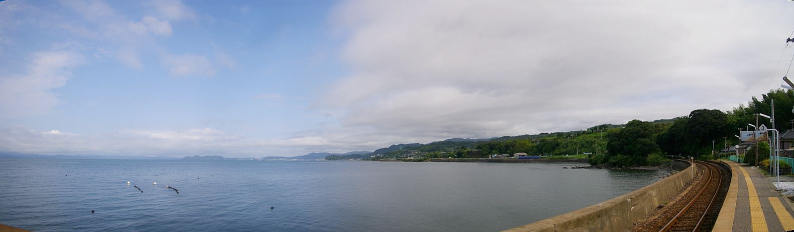 Sta.Chiwata beside Omura-bay